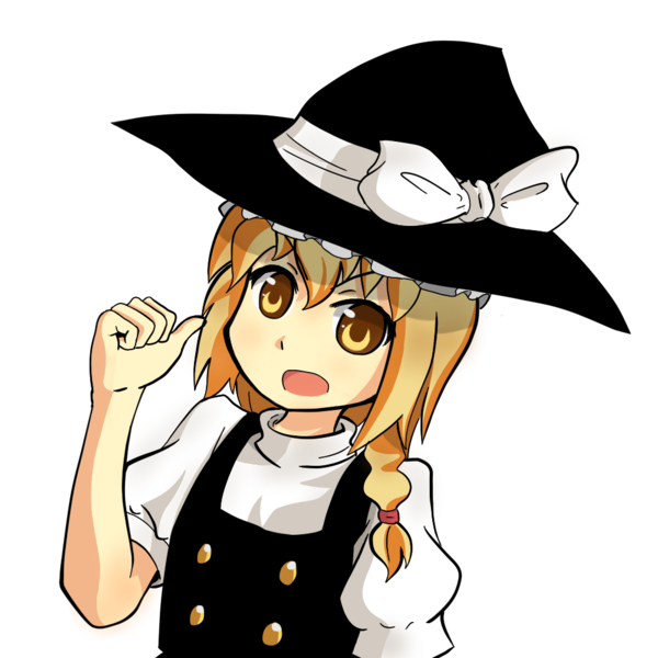 Artwork of Marisa with an outward-pointing thumb gesture.